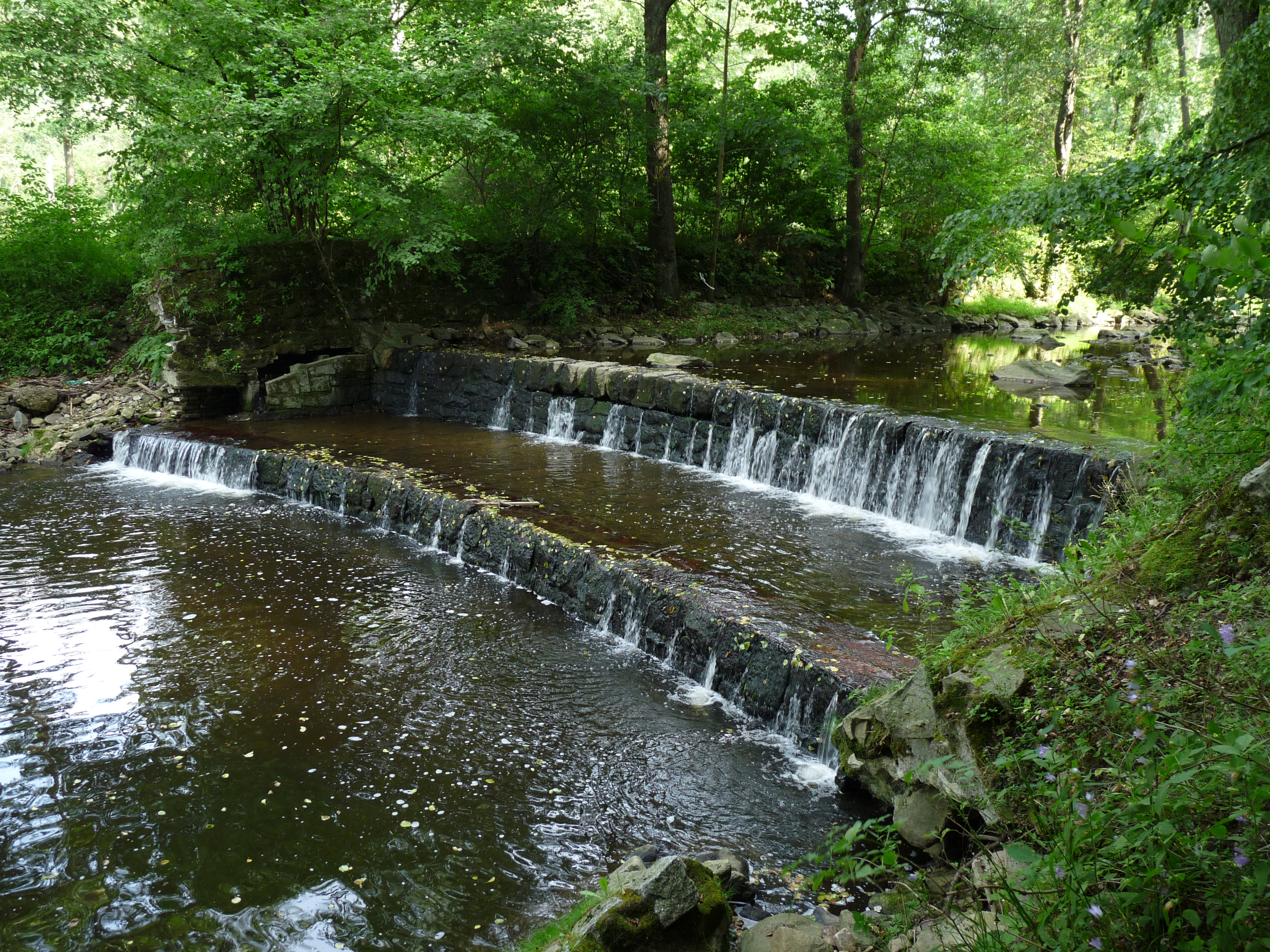 Křemžský Stream near Dívčí kámen Castle, Český Krumlov District, South Bohemian Region, Czech Republic.